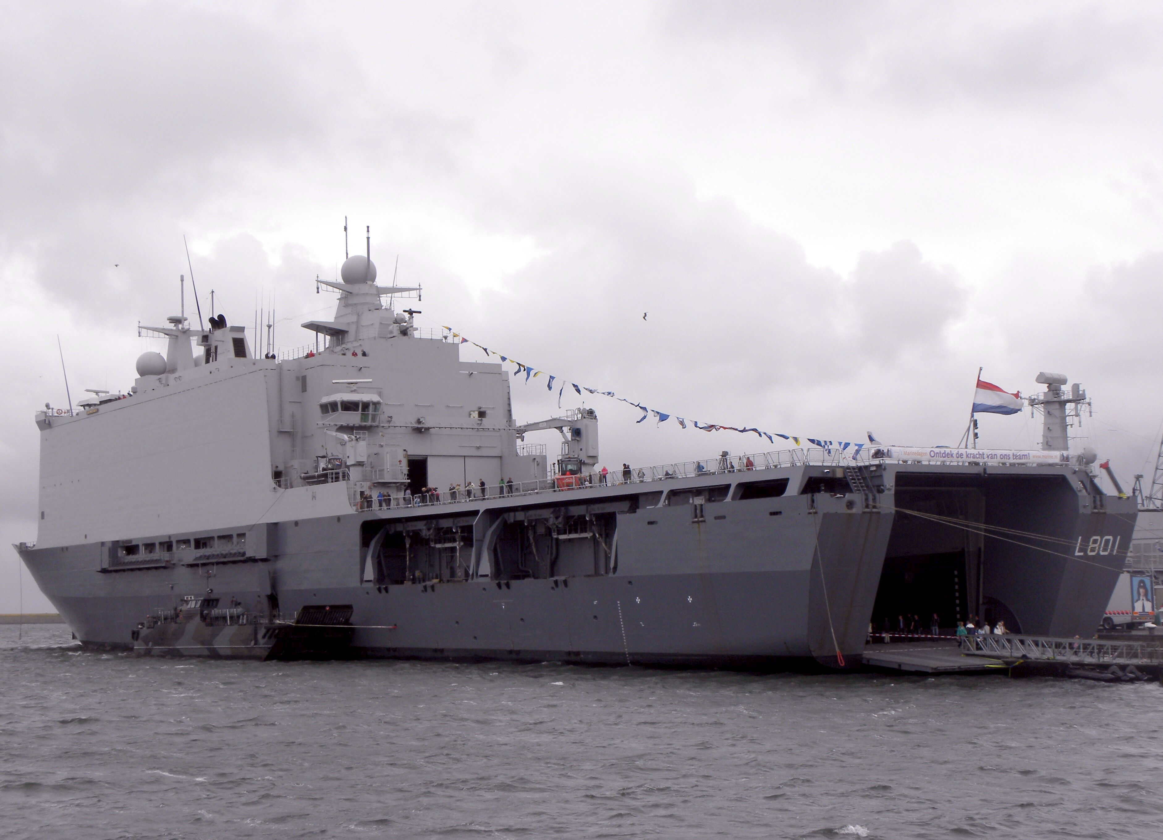 Hr. Ms. Johan de Witt, amphibious transport ship, (LPD) Landing Platform Dock